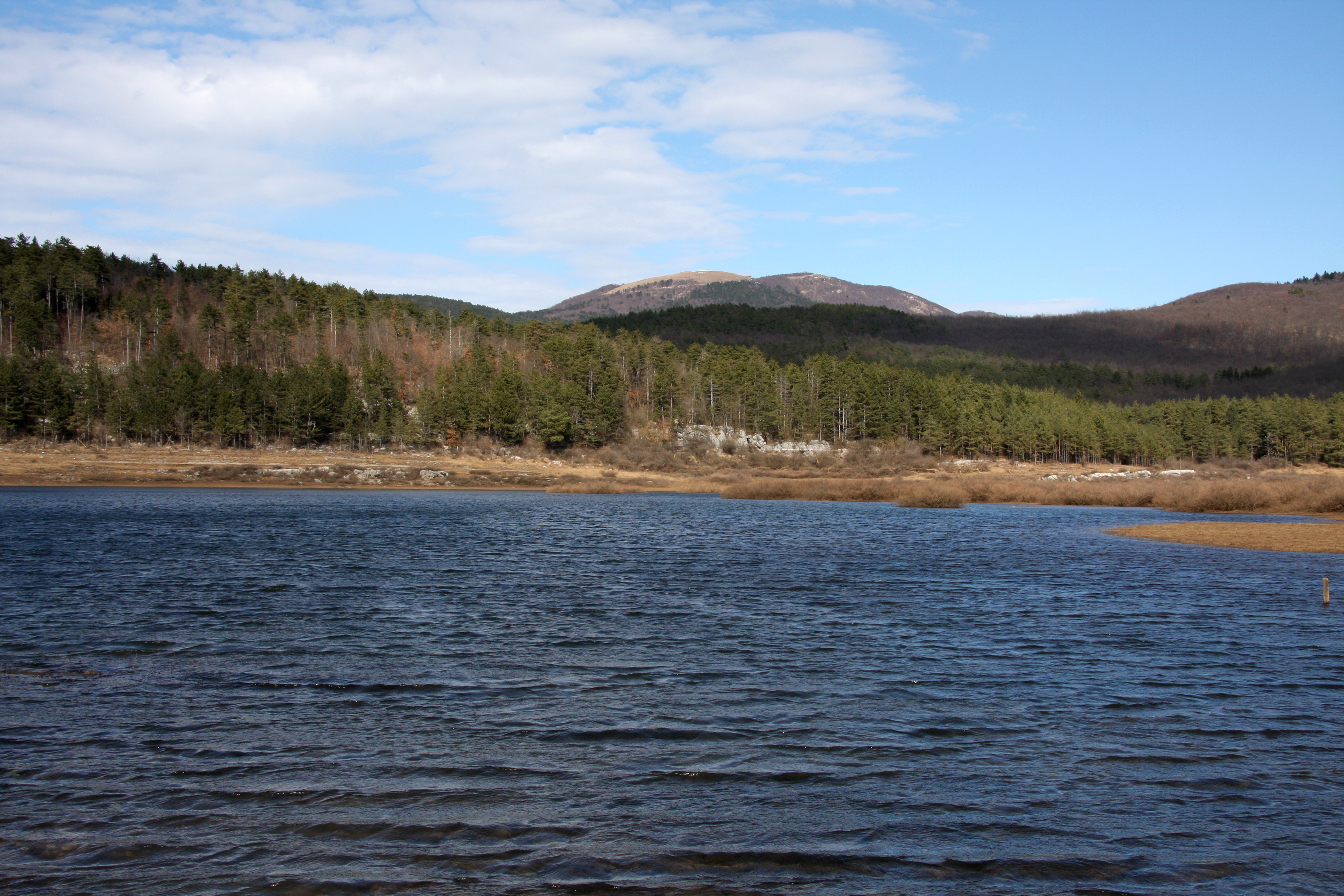 A view towards NE over intermittent Lake Palško at beginning of spring. The water has already largely receded (the shot was made from the middle of the area that the lake takes up when full).